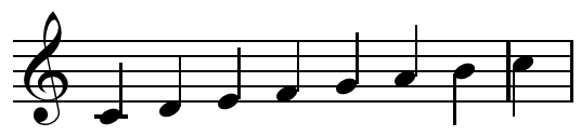 Diatonic scale on C, tenor clef.